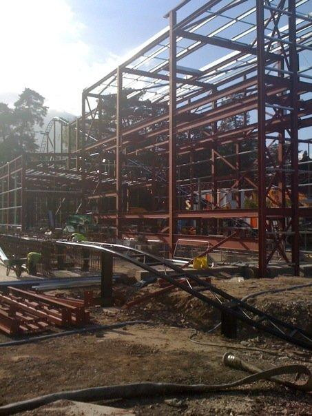 Secret Weapon 6 - construction phase